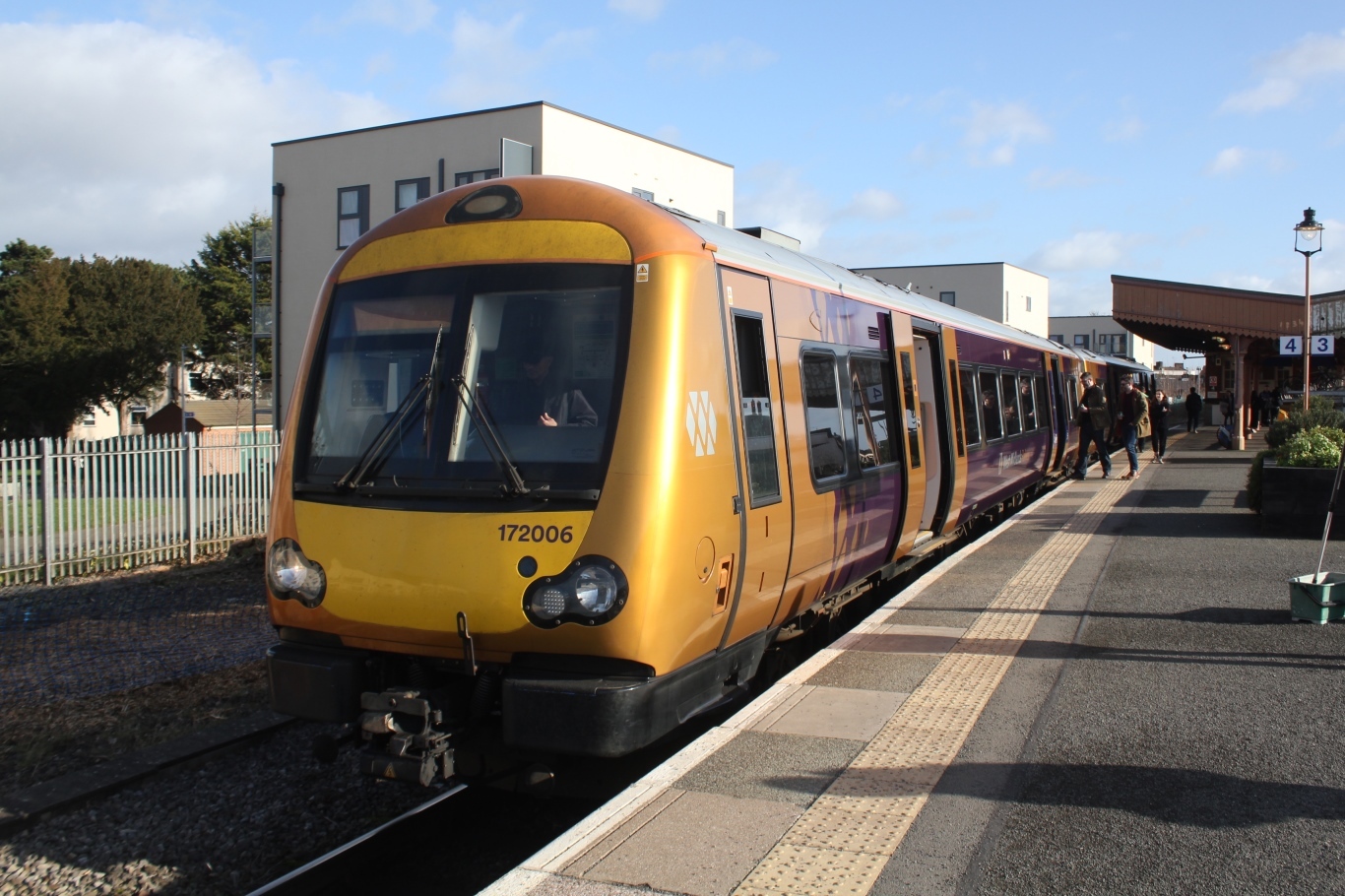 West Midlands Trains' 172004 at Leamington Spa with a service to Nuneaton.